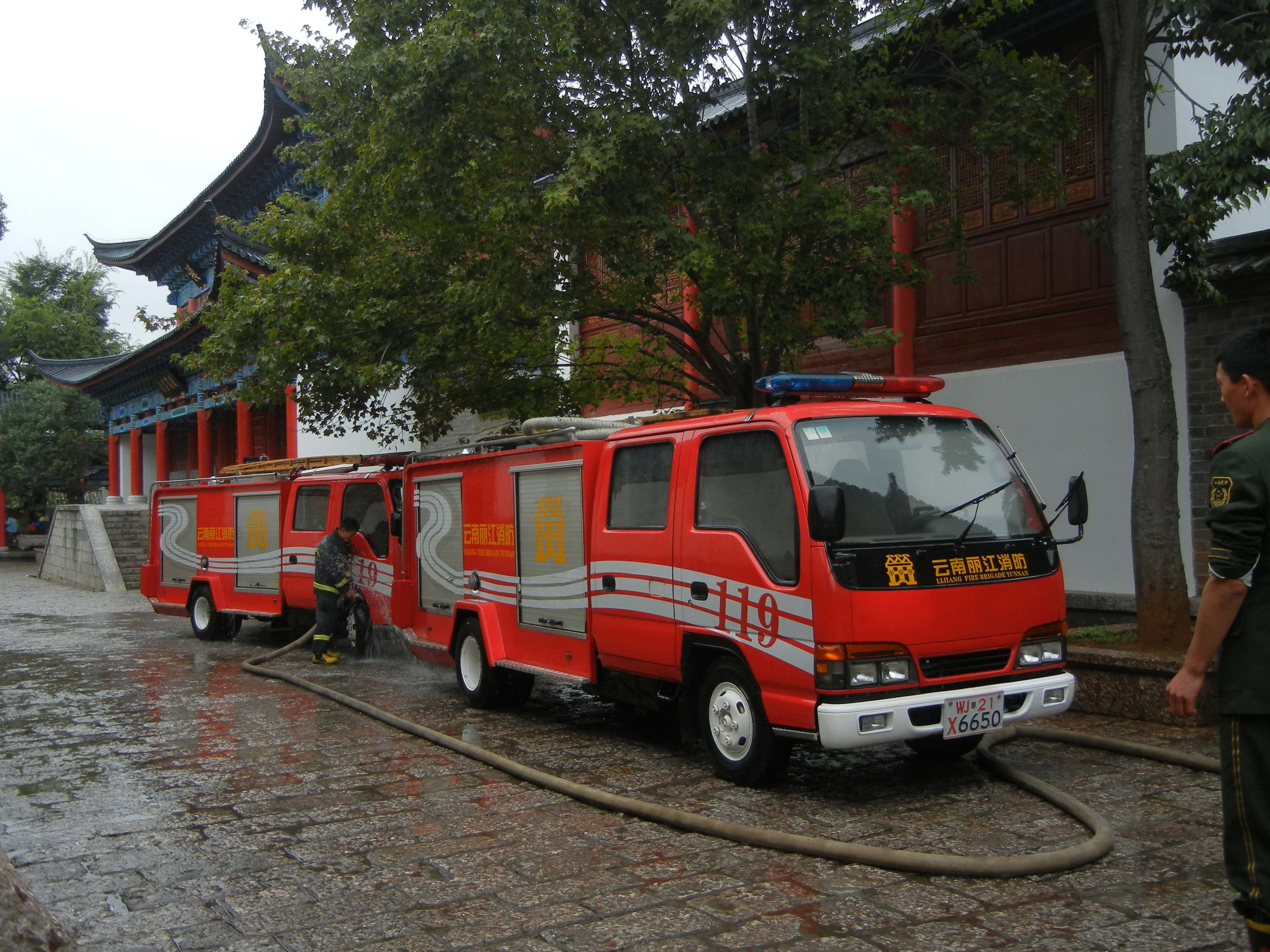 Lijiang Old Town Fire trucks Fire trucks. A unique use of the truck's hose to wash the truck